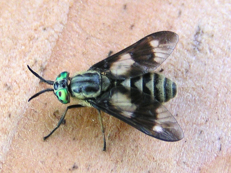 Female Goldaugenbremse (Chrysops relictus) - Tabanidae - Diptera